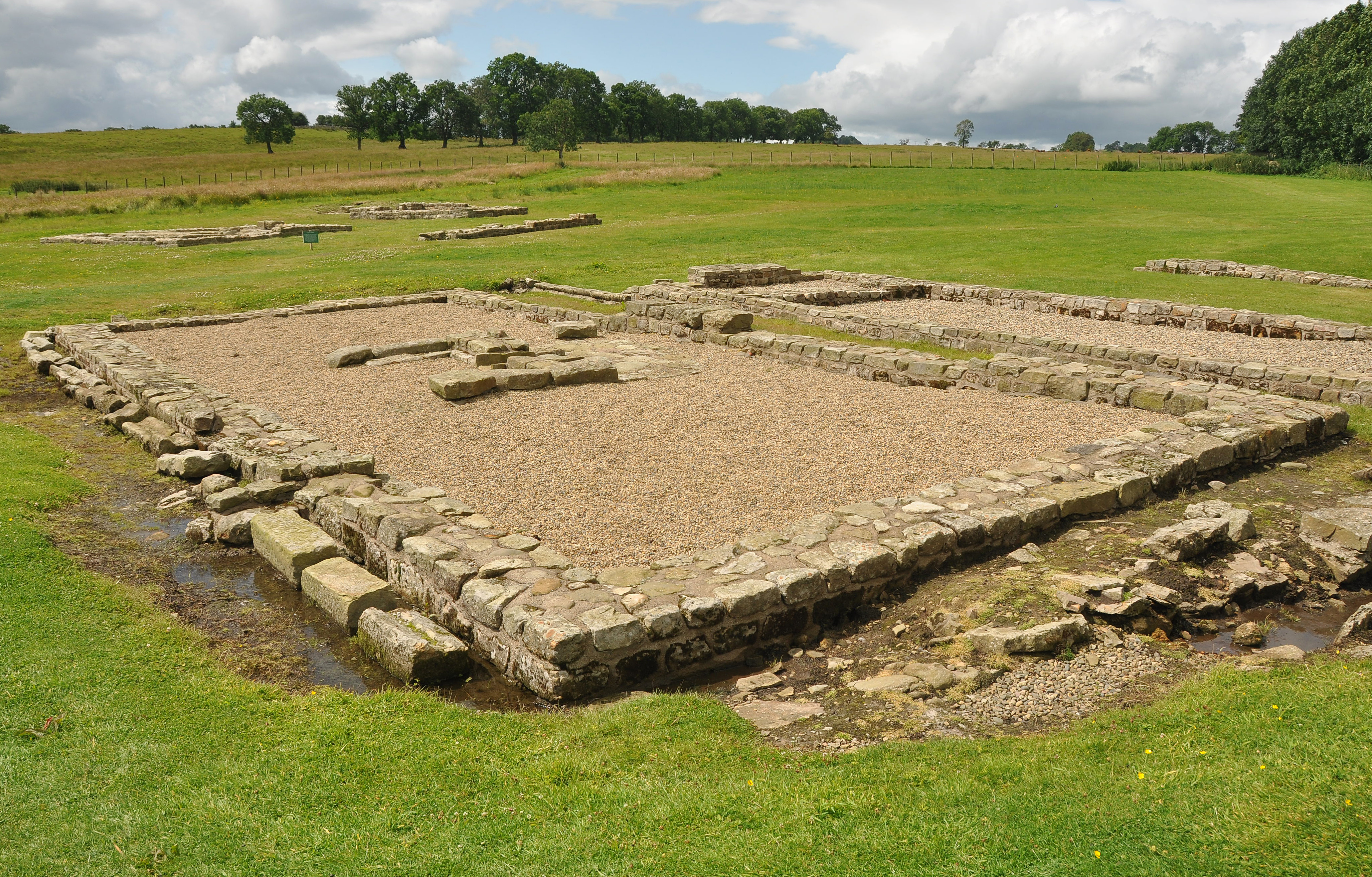 Ruined buildings at Vindolanda, Northumberland.